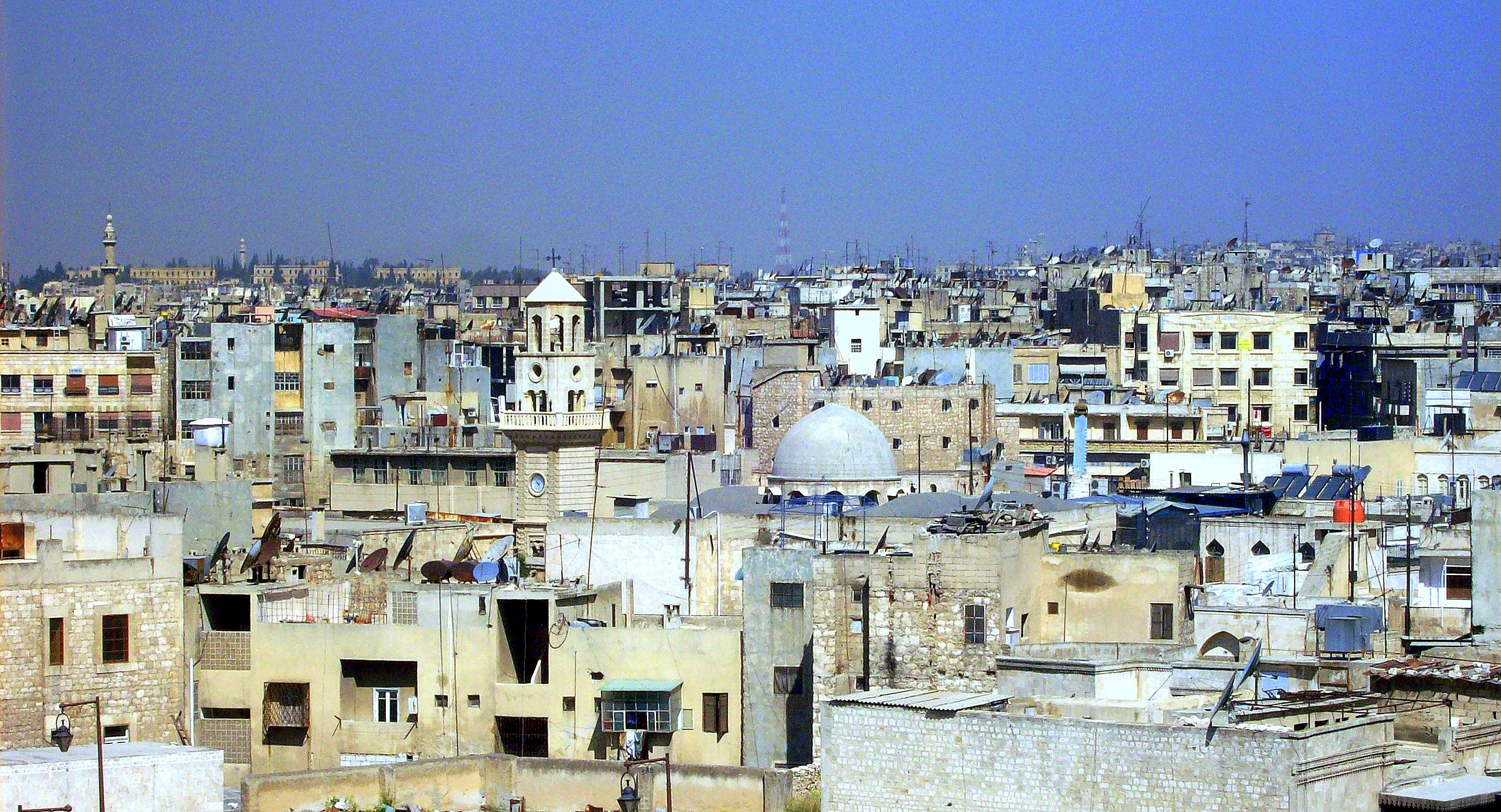 Jdeydeh quarter rooftops